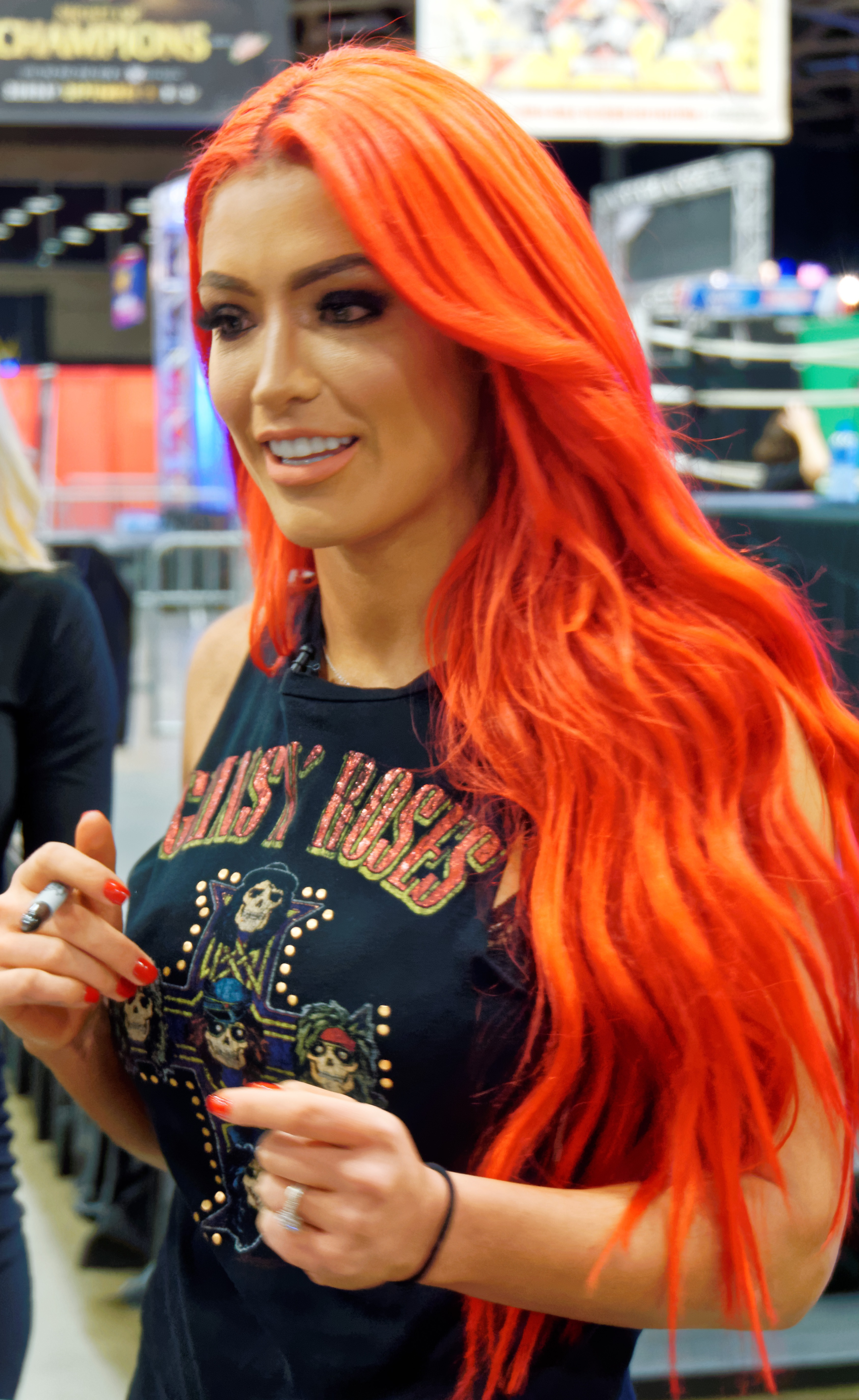 Eva Marie during the WrestleMania 32 Axxess in March 31, 2016.